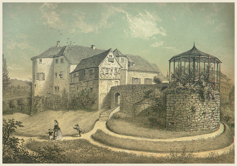 The castle in Stadtlengsfeld.